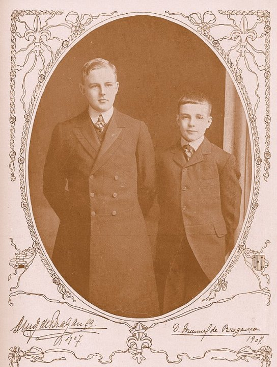 Os principes